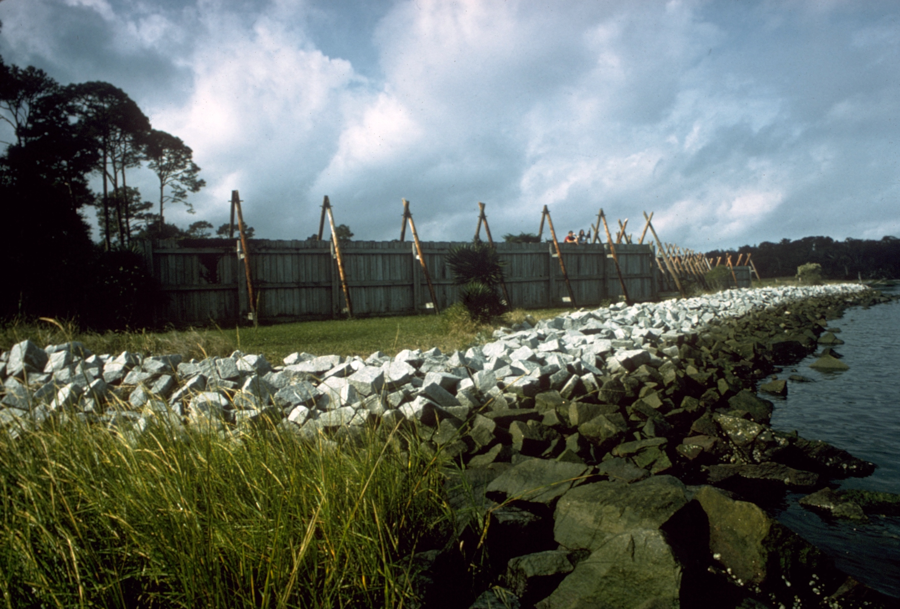 Palisades of Fort Caroline National Memorial, Florida